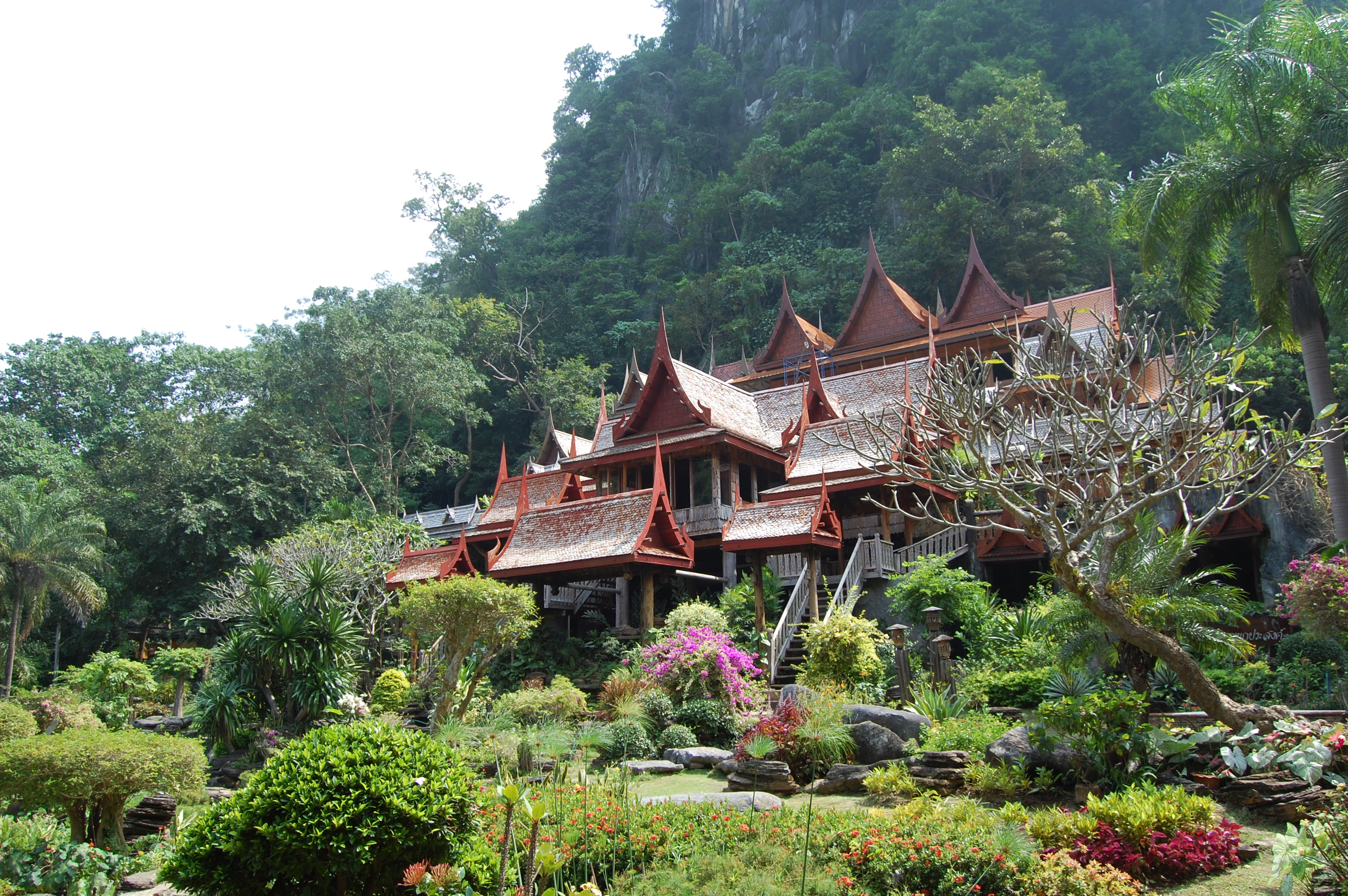 Wat Tham Kao Wong, Tambon Ban Rai, Amphoe Ban Rai, Uthai Thani Province, northern Thailand. It lies near Suphanburi Province.